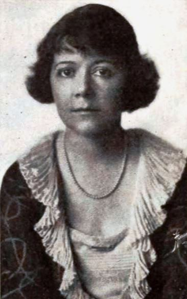 Screenwriter Marion Fairfax, on page 41 of the October 16, 1920 Exhibitors Herald.